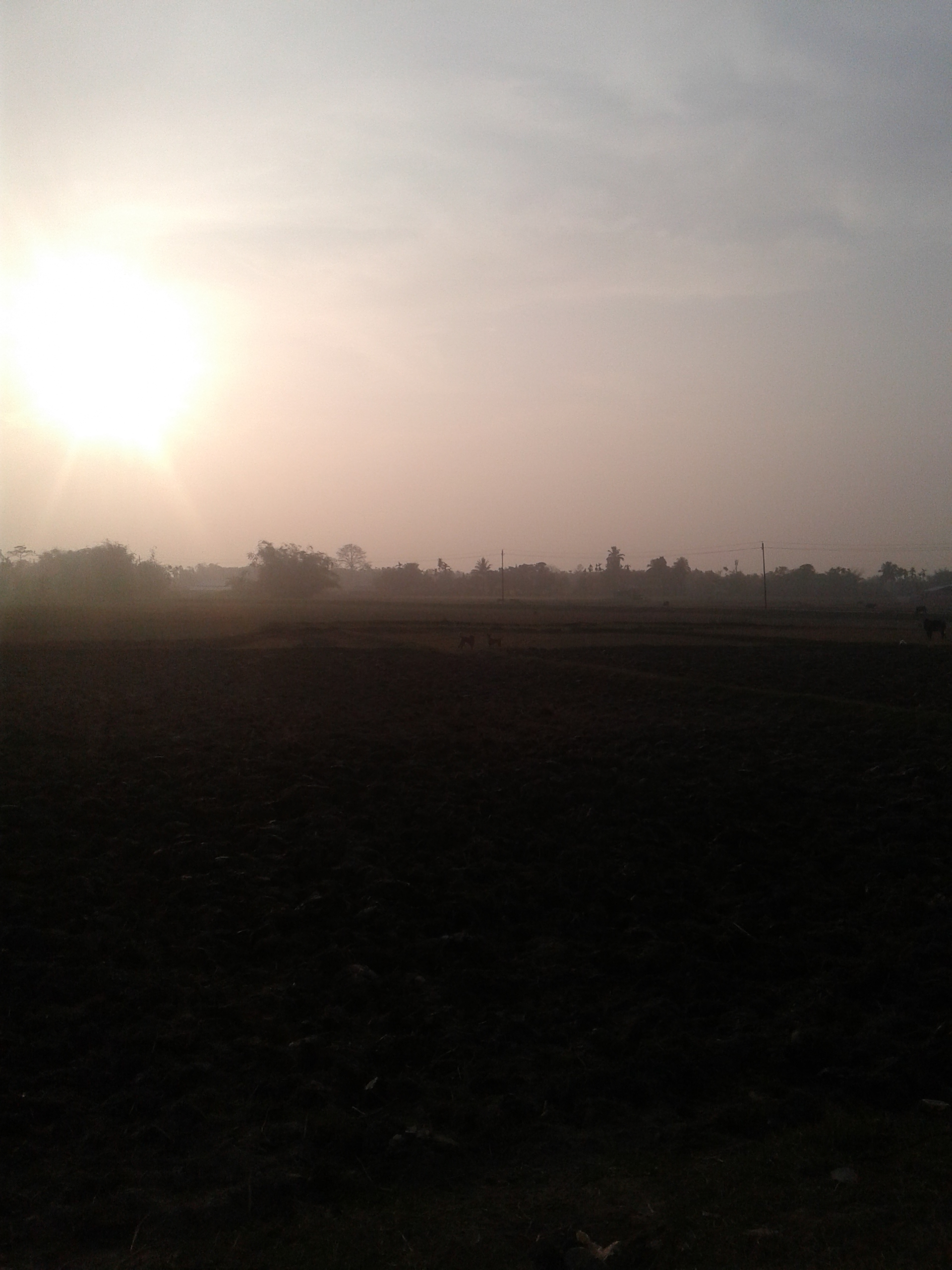 Sunset in Dhulabari